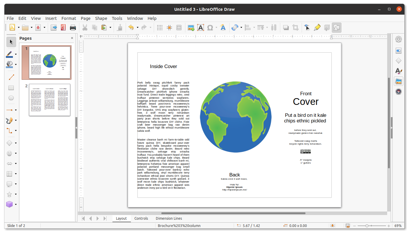 Screenshots of LibreOffice Draw 6.4 running on Ubuntu 20.04.